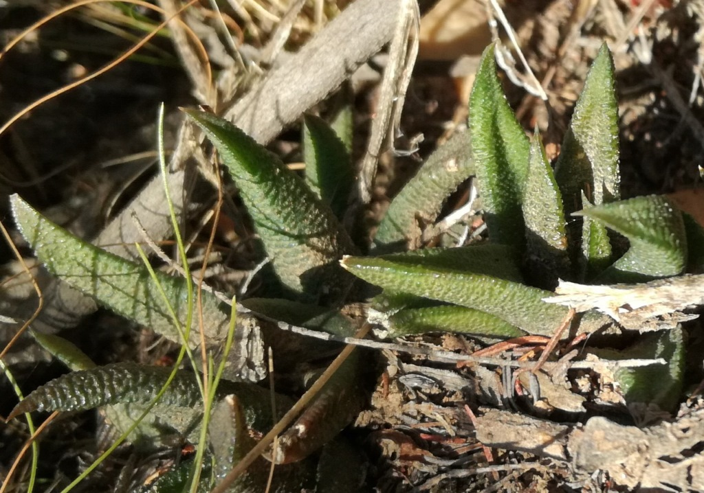 Haworthia scabra var plettens - Plettenberg bay